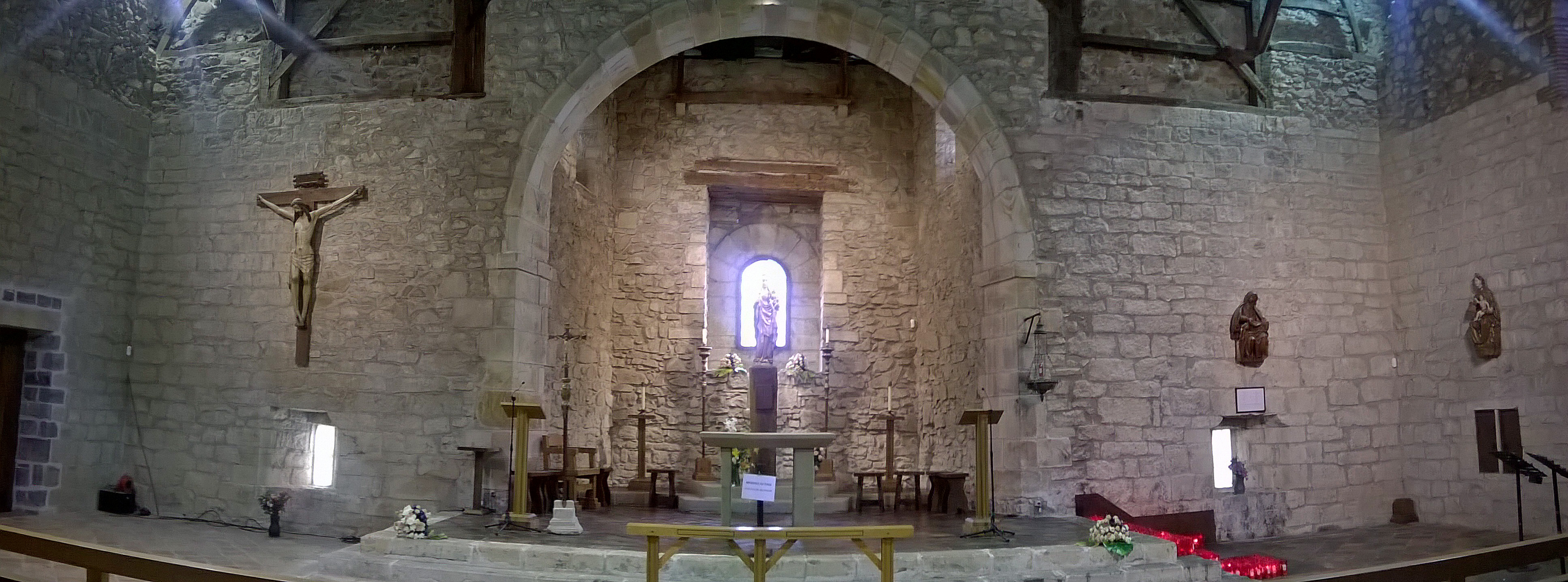 Antio hermitage, Zumarraga, Gipuzkoa, Basque Country.